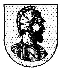 Palthe coat of arms.